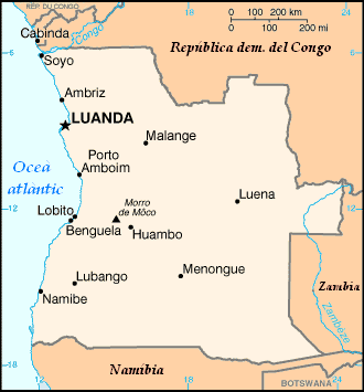 Map in French of Angola